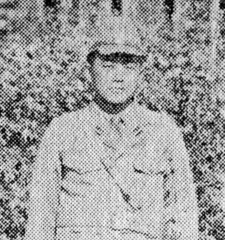 Chihaya Takehiko is an Imperial Japanese Navy Captain